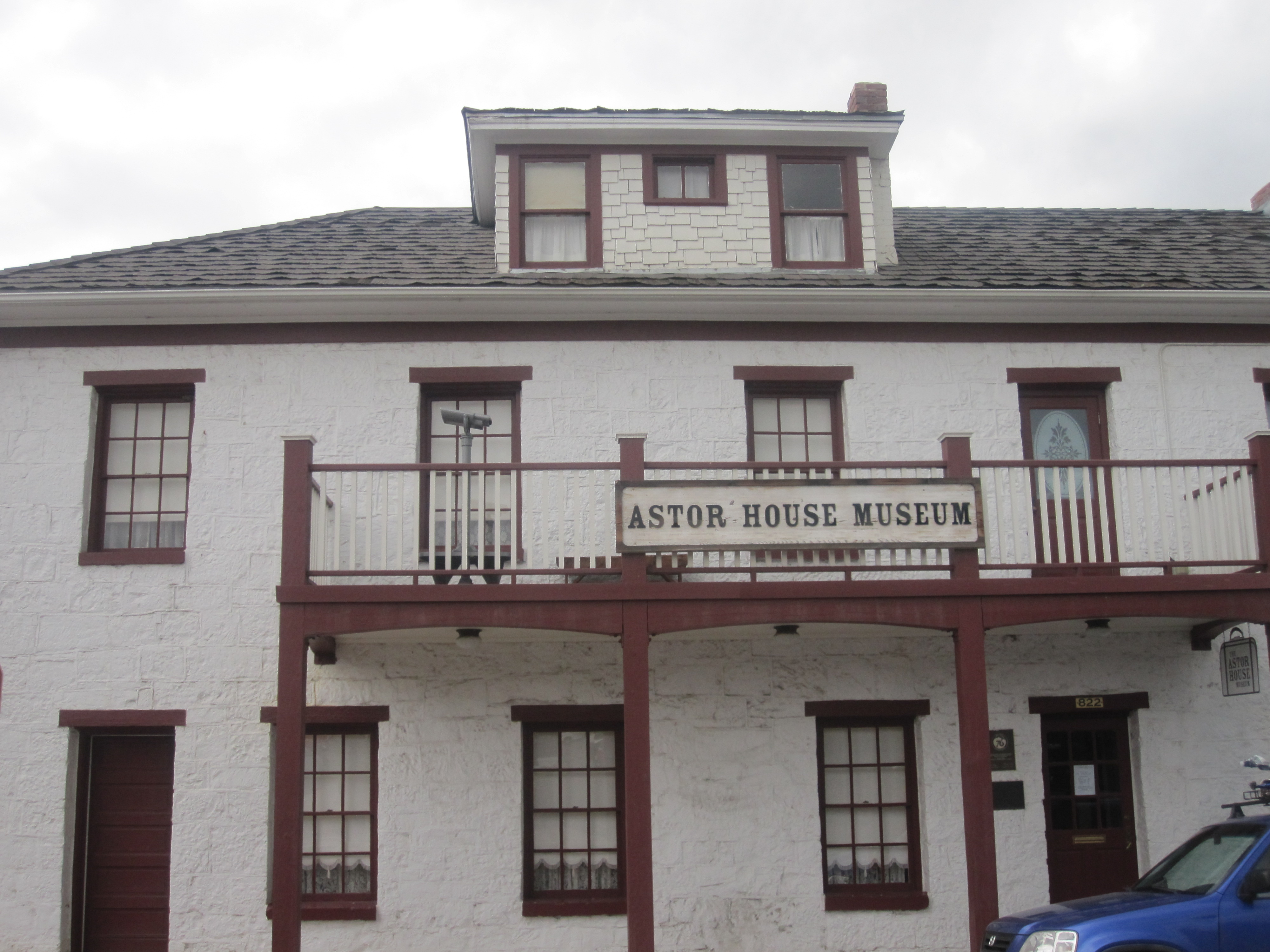 I took photo in Golden, CO, with Canon camera.